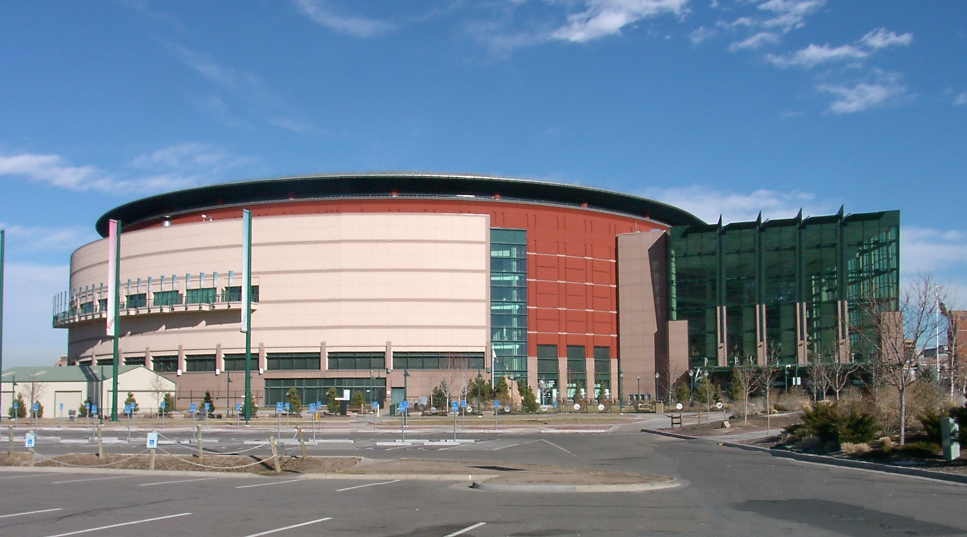 Denver Pepsi Center, some street furniture photoshopped out